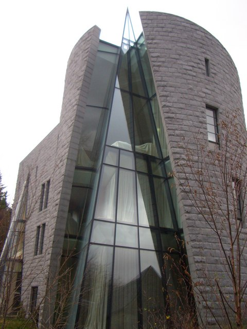 Corrour Shooting Lodge Incredible ultra-modern highland lodge. Shut up for winter when this photo was taken.